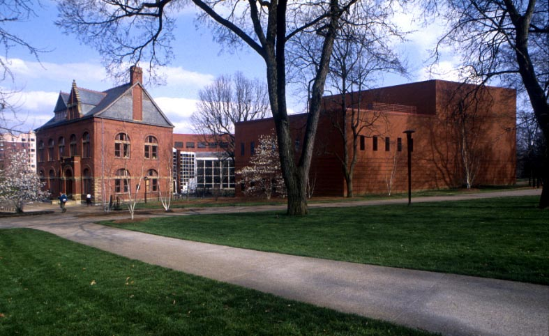 Owen School of Management